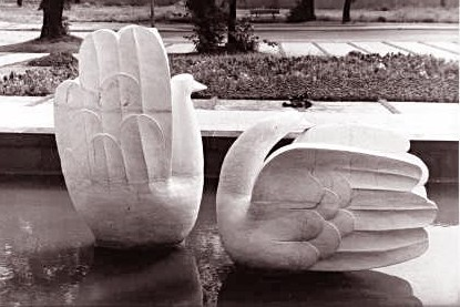 Swans, author: Jerzy Boron, polish sculptor (1924-1986) Picture: Jacek Boron